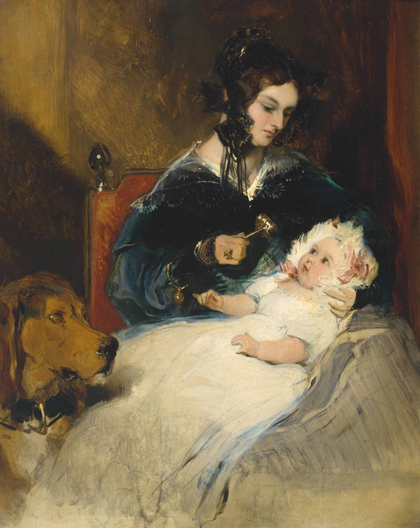 This is a version of a portrait Landseer painted in 1834. It was probably painted in 1836, the same year it was engraved for 'The Book of Beauty'. It shows Louisa Jane, wife of the first Duke of Abercorn, with the first of her fourteen children, Harriet, who was born in 1834. The Abercorns were among Landseer's most loyal patrons. He often visited them at their home in Surrey. He also made frequent trips to their hunting lodge at Ardvereike in Scotland. Landseer was an accomplished portraitist. He was also a master of the kind of sentimentality which the 'Book of Beauty' and other annuals specialized in. However, he is now chiefly remembered for his animal paintings. Oil paint on copper, Tate collection support: 542 x 432 mm